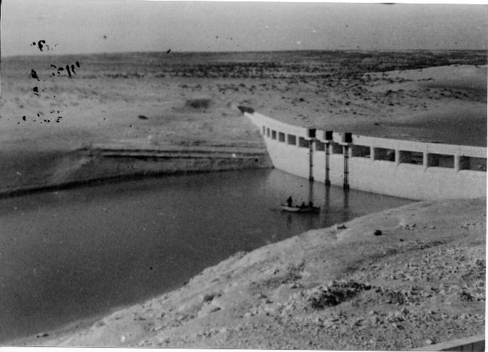 Ruafa Dam, 5km from Umm Katefh, Sinai, 1948